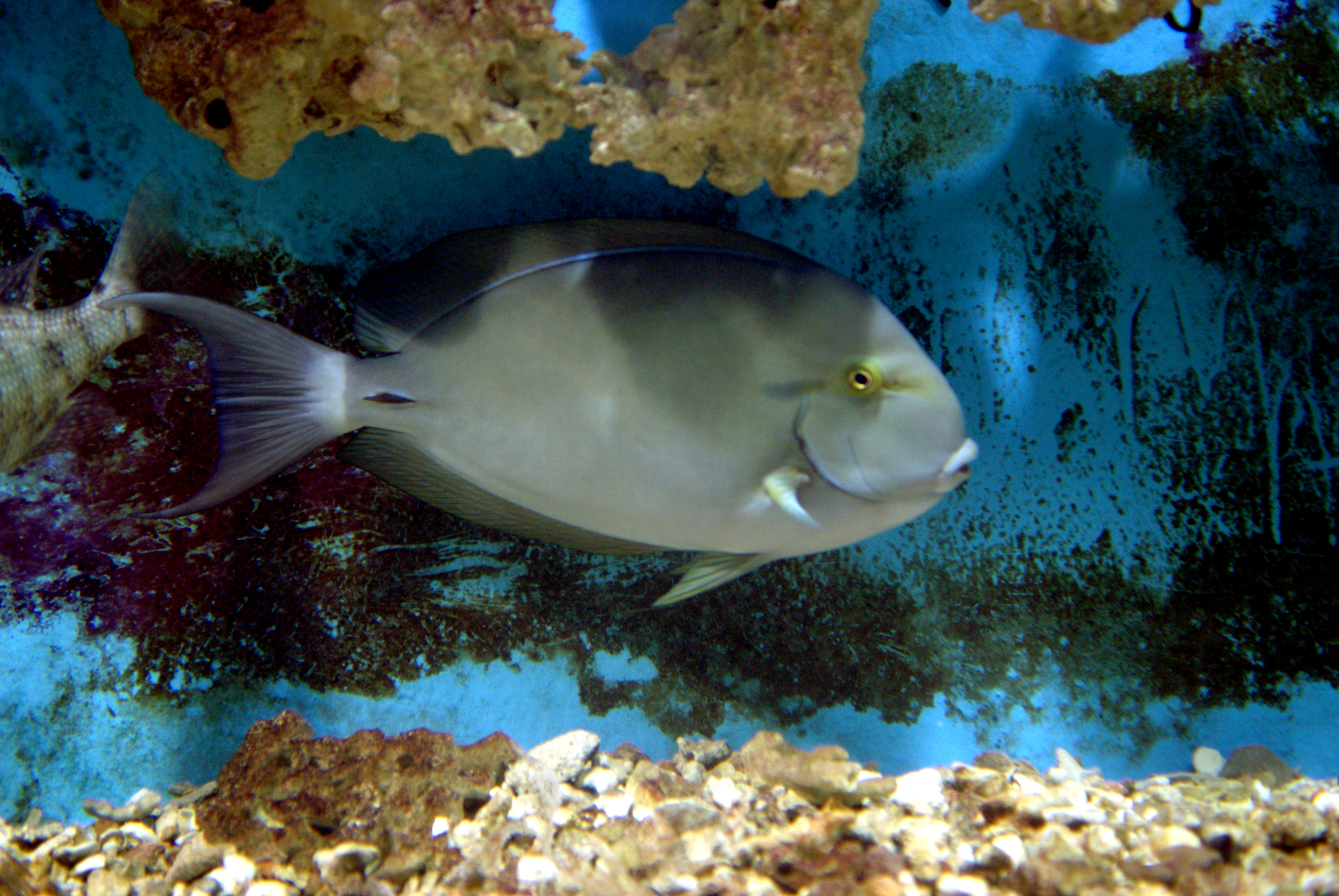 Unidentified fish in Red Sea Aquarium